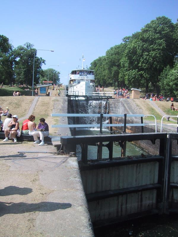 Bergs slussar, Berg, near Linköping, Sweden.